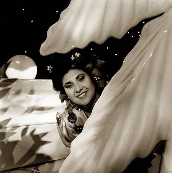 Marisa Laurito portrait